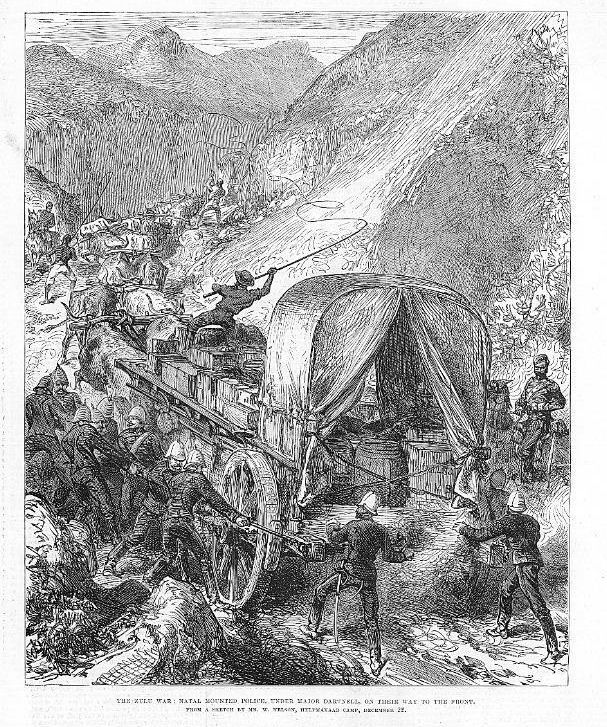 The Natal Mounted Cavalry making their way to the front during the Zulu War - The Illustrated London News - 22 February 1879